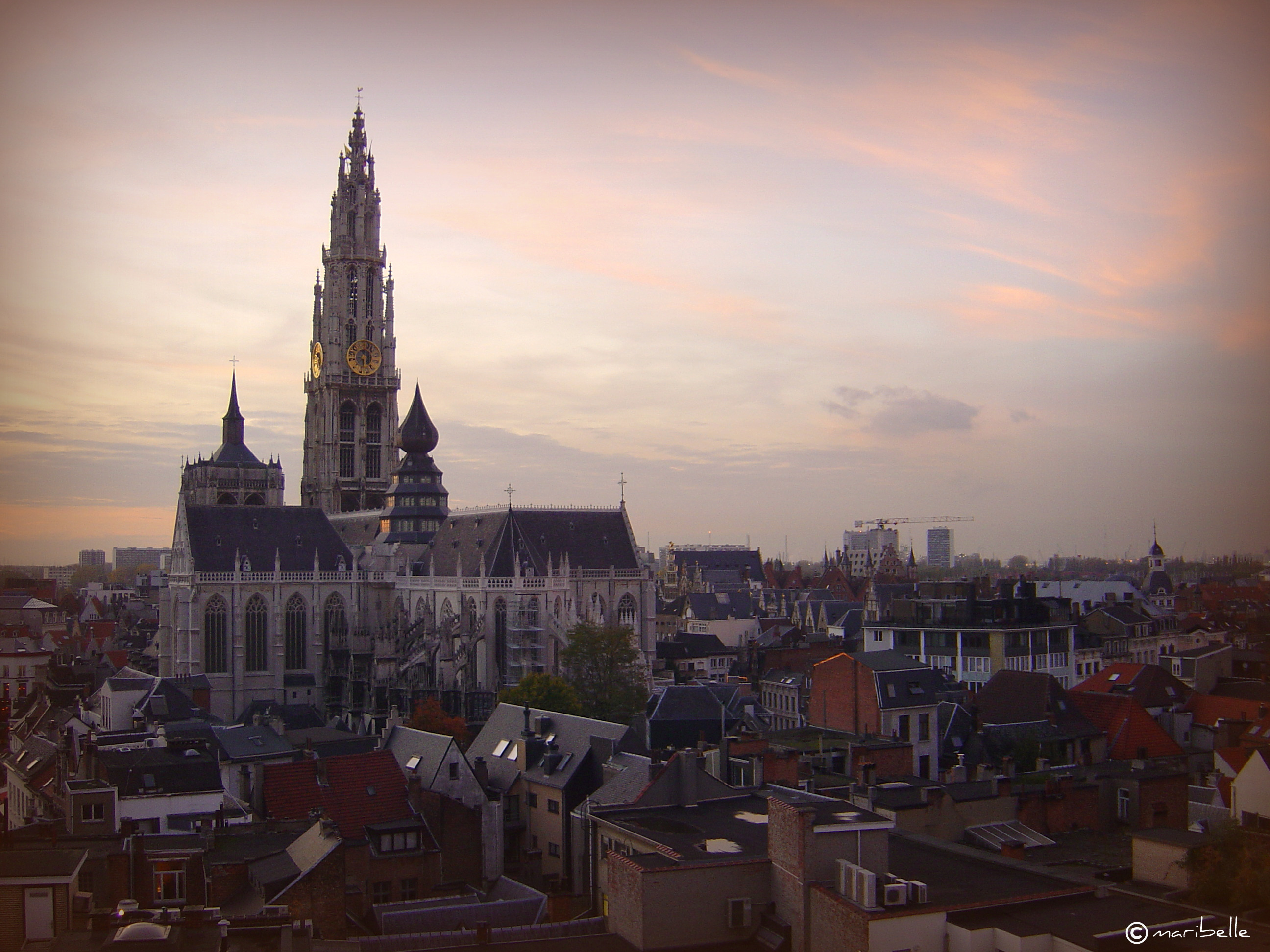 "Onze Lieve Vrouw" Cathedral of Antwerp at dusk